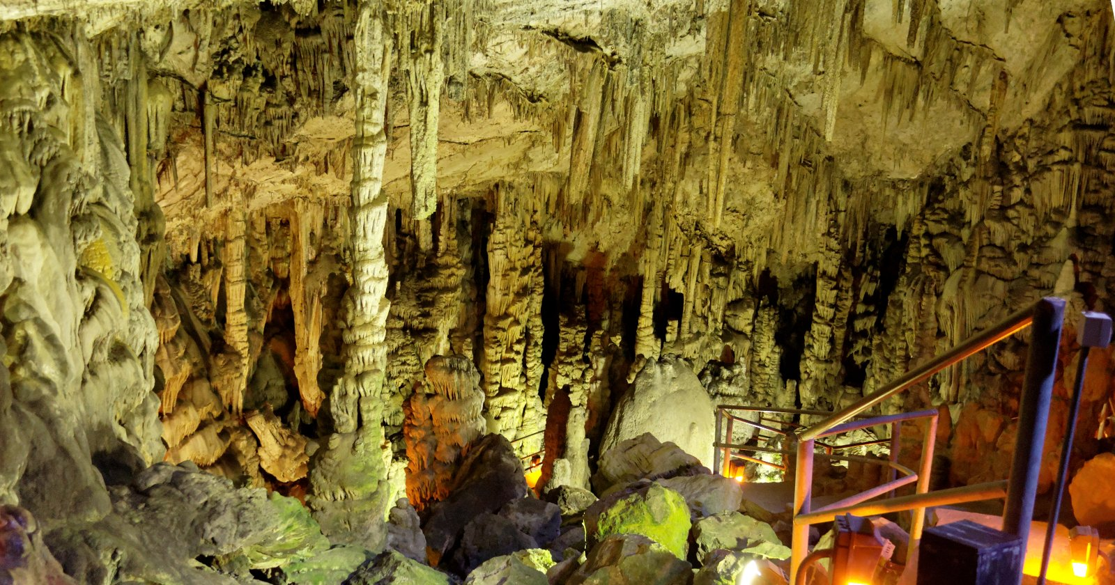 The cave of Psychro (Diktaion Antron) is one of the most important cult places of Minoan Crete. It is located in the Mount Dicte, in East Crete, on the Lassithi Plateau.